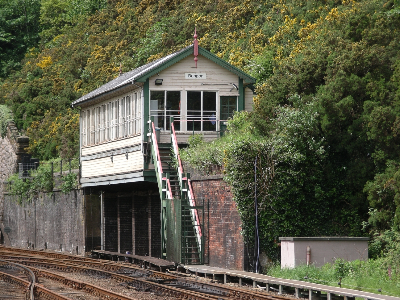 Signal box at Bangor railway station, Wales